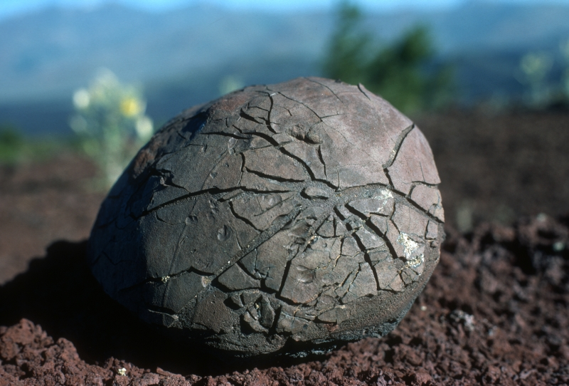 Volcanic bomb, breadcrust type - in: Craters of the Moon National Monument and Preserve, Idaho, USA.